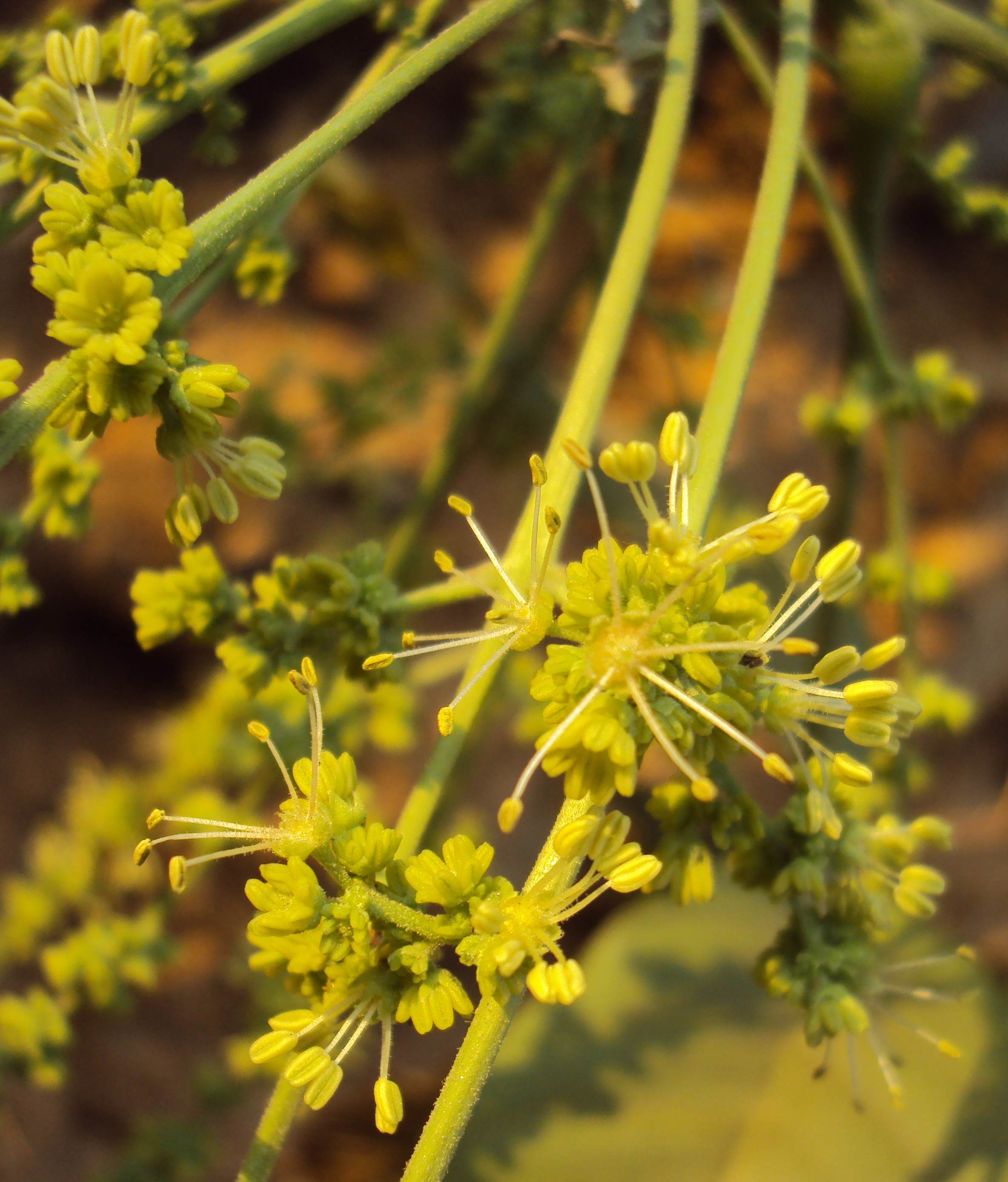 Schleichera oleosa